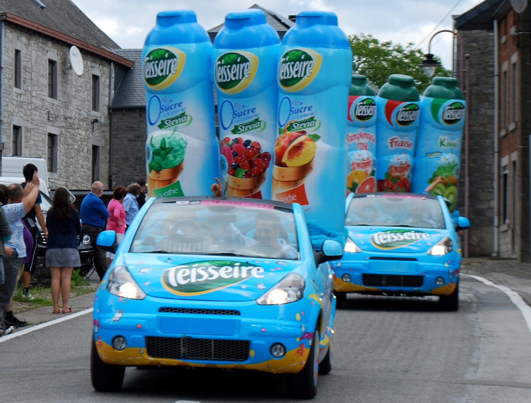 The Teisseire caravan passing through Tohogne (Durbuy) in the 2012 Tour de France